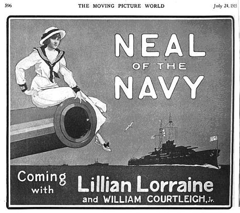 Actress Lillian Lorraine in the serial film Neal of the Navy (1915).